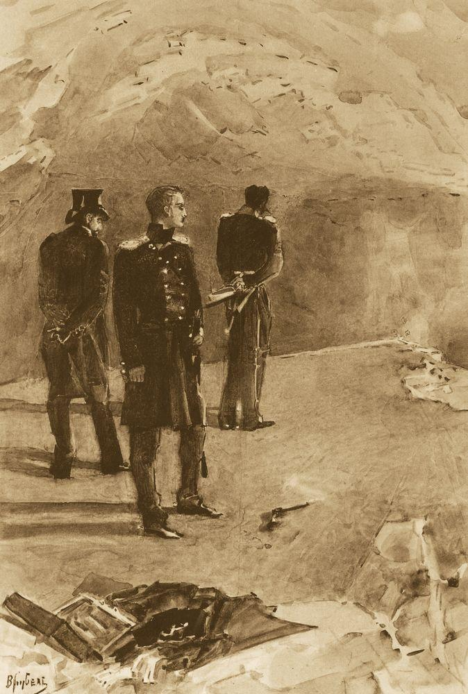 Painting of Mikhail “Pechorin and Grushnizky duel”. An illustration to “A Hero of Our Time” novell by Lermontov.